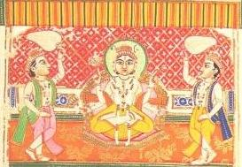 Vishnu as the incarnation Buddha